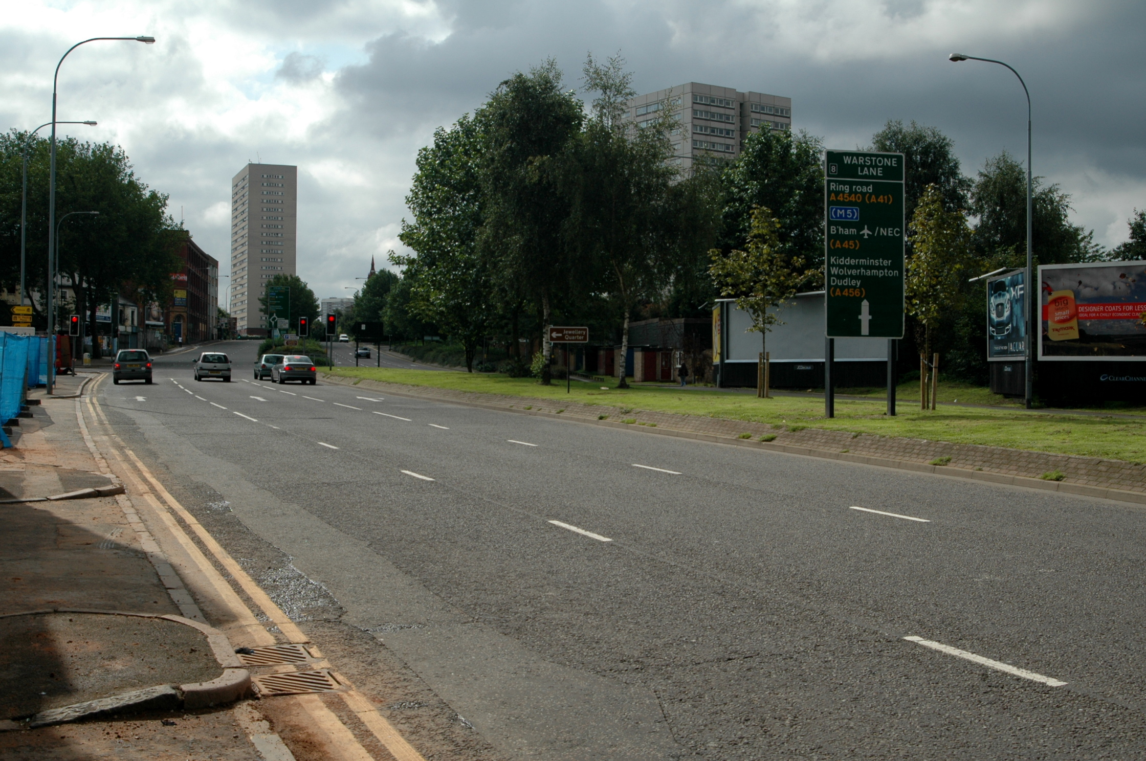 This is Icknield Street, part of the Middle Ring Road in Birmingham.